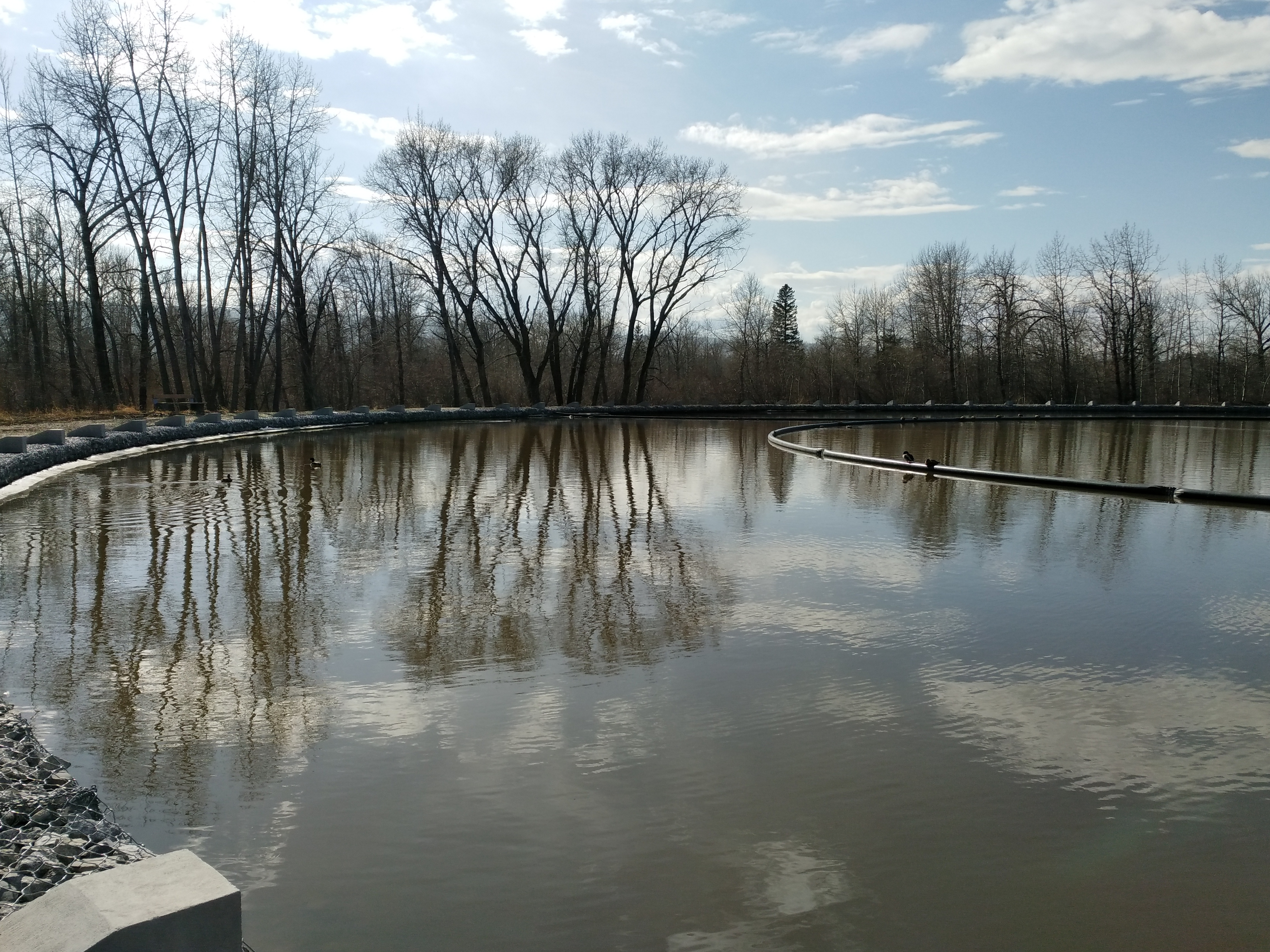 The area which once was a gravel pit was transformed in a process that combined water engineering, public art, landscape architecture and ecological design. Stormwater makes its way to the Bow River. The system includes a Nautilus Pond, a polishing marsh, a wet meadow, a stream, outfall, a dry stream, riparian areas, and a lookout mound.